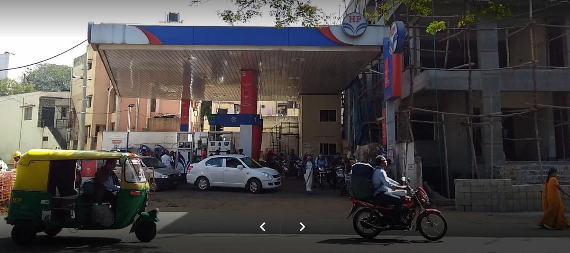 HP Petrol Bunk at Basaveshwaranagar, Bangalore